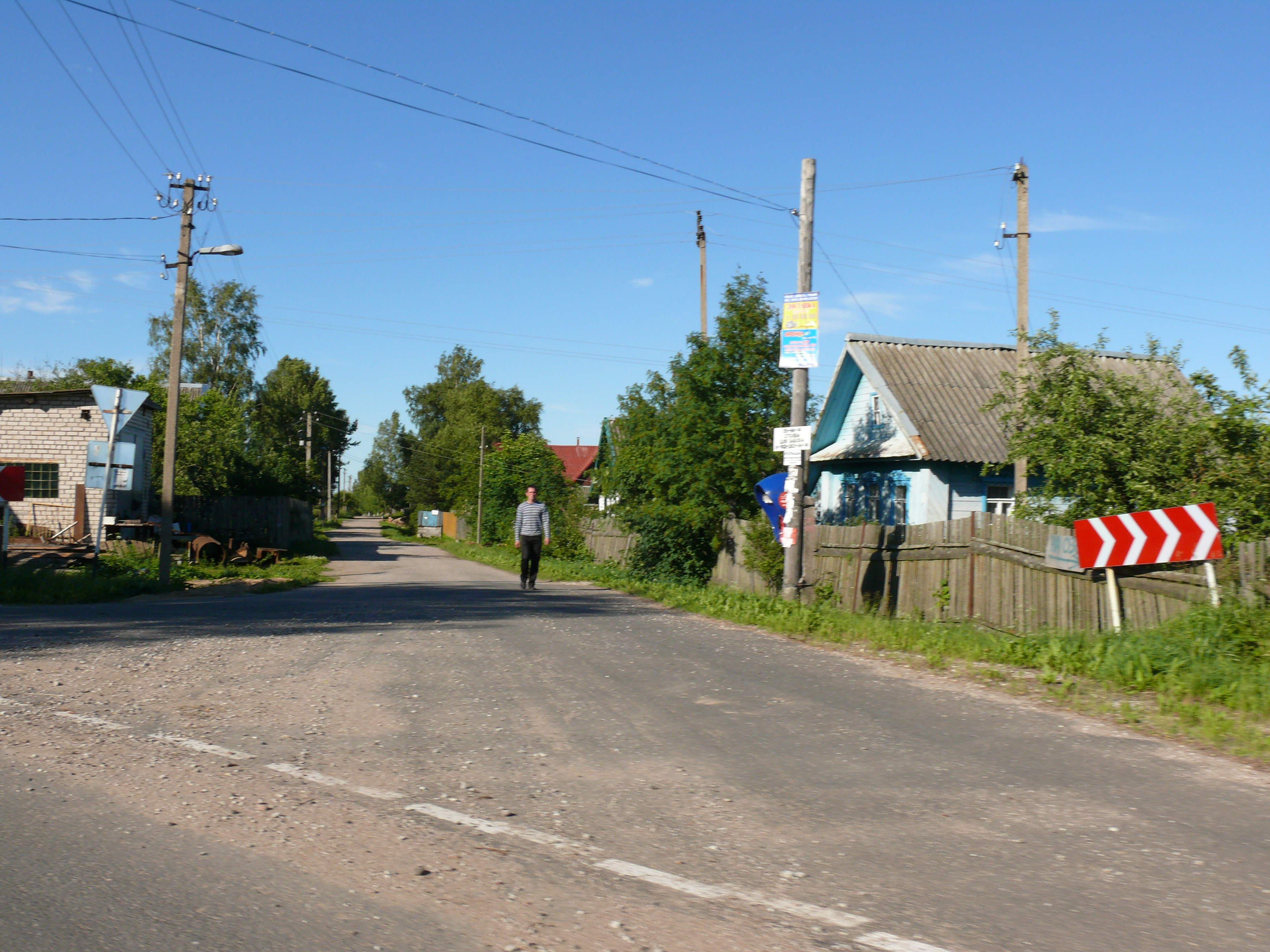 Neronov Bor village. Novgorodsky district, Novgorod oblast, Russia